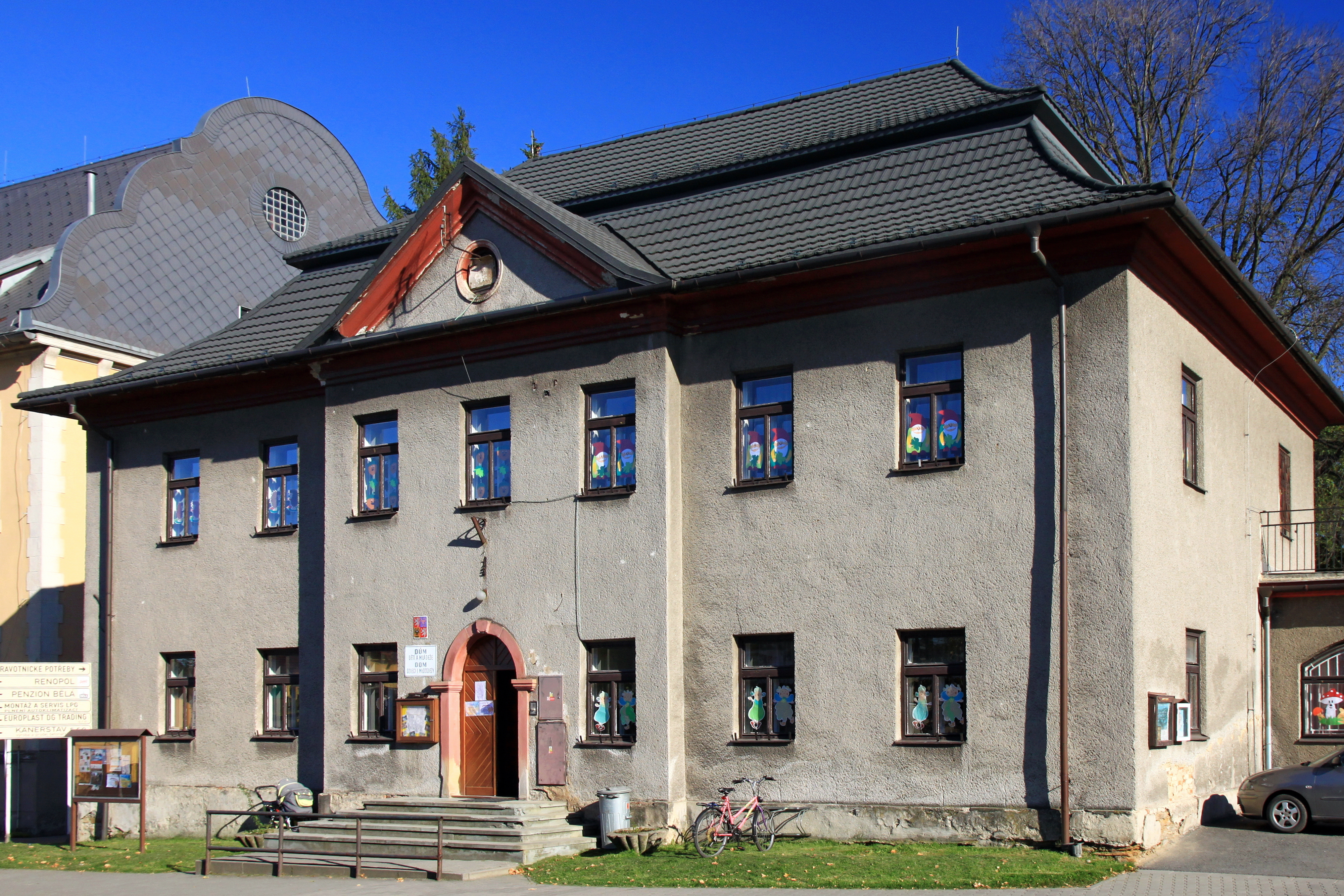 Former town hall, now house of children and youth. Jablunkov, Moravian-Silesian Region, Czech Republic.